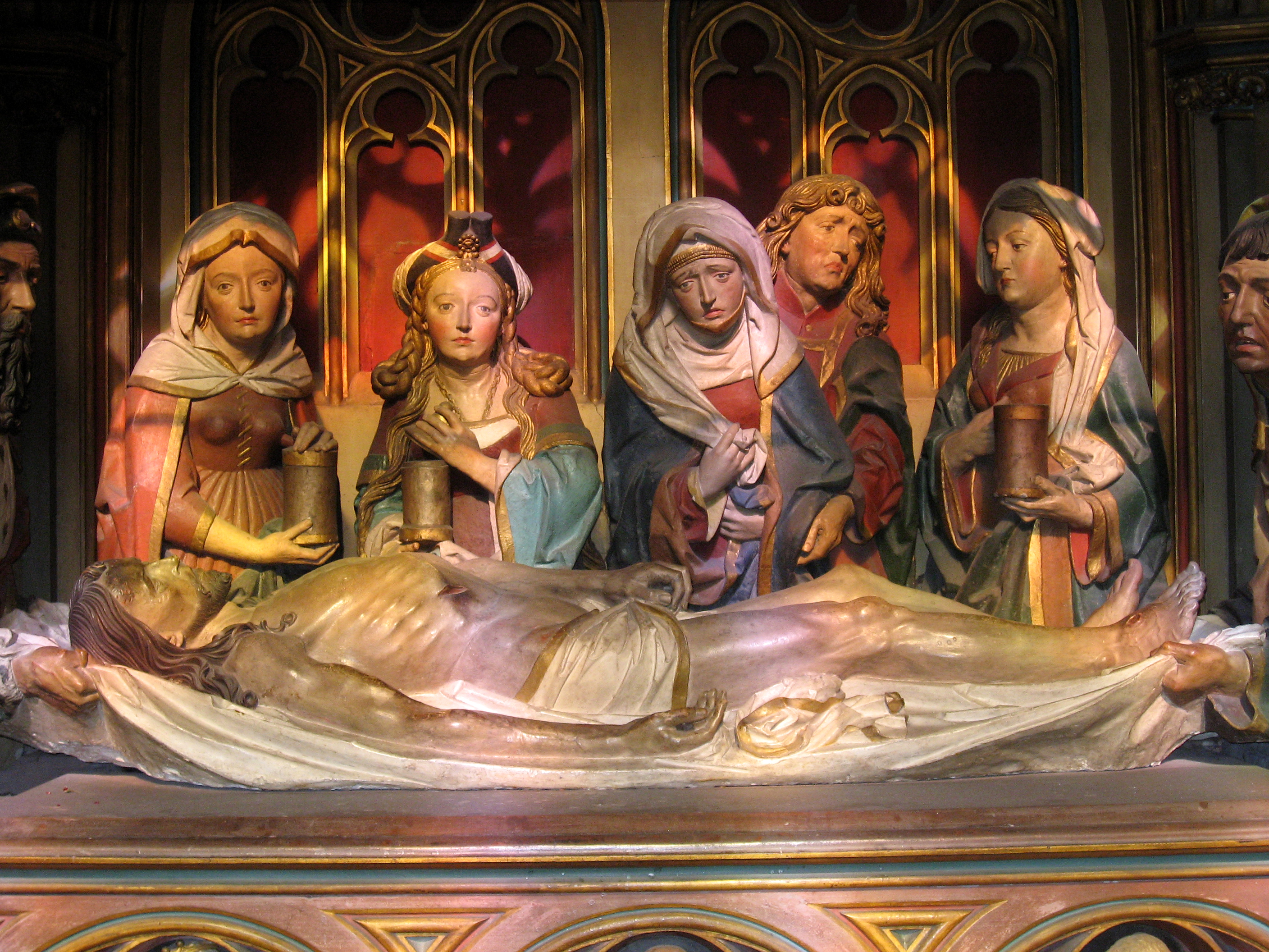 Station of the Cross in Cologne Cathedral, 14th station – entombment of Christ, north tower of the cathedral